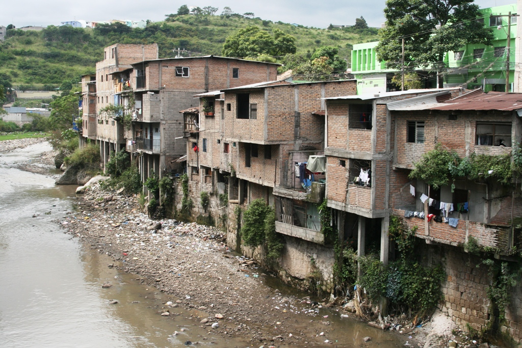 Tegucigalpa, Honduras - Riverside Houses